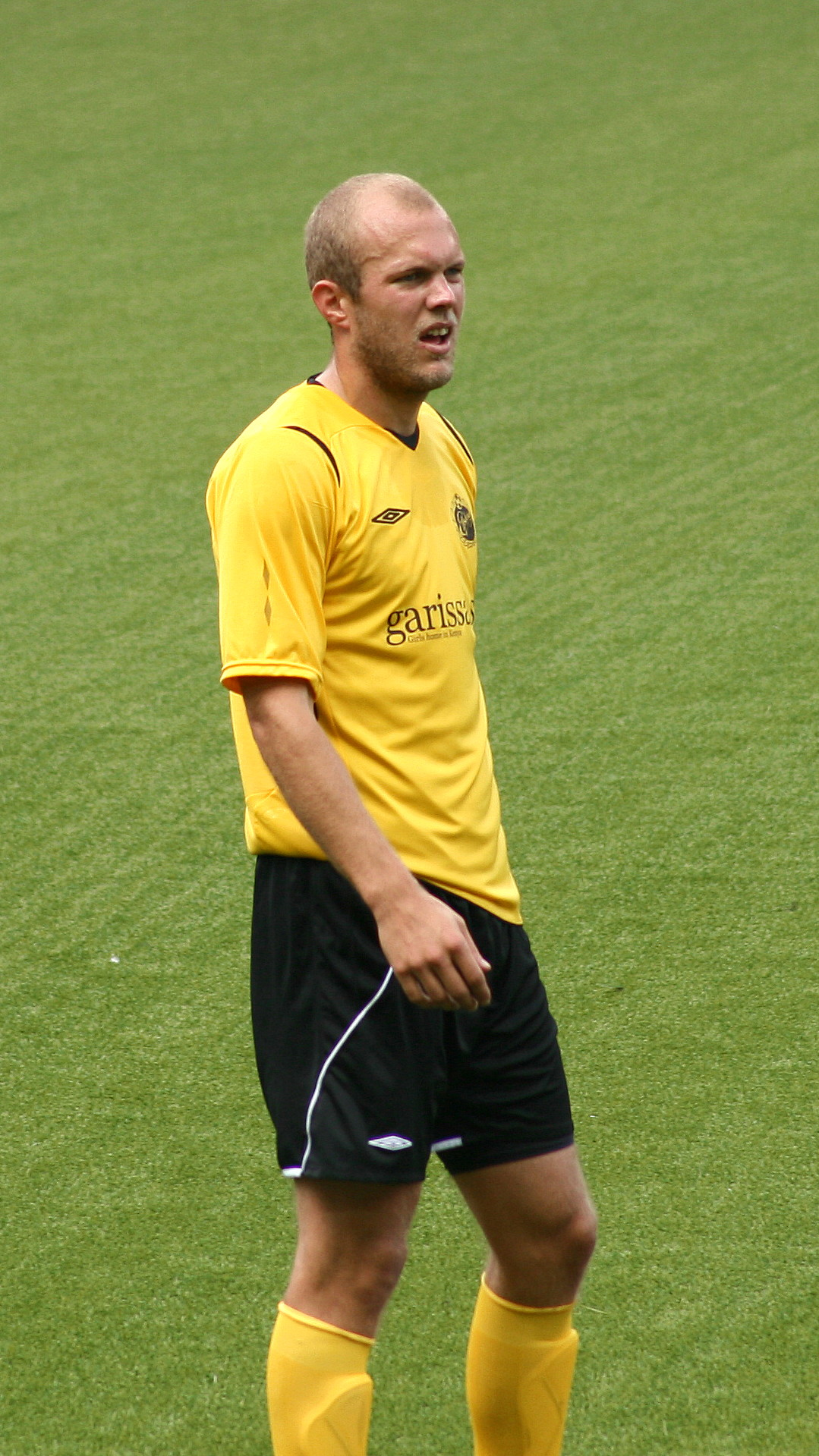 The footballplayer Martin Andersson in Elfsborg